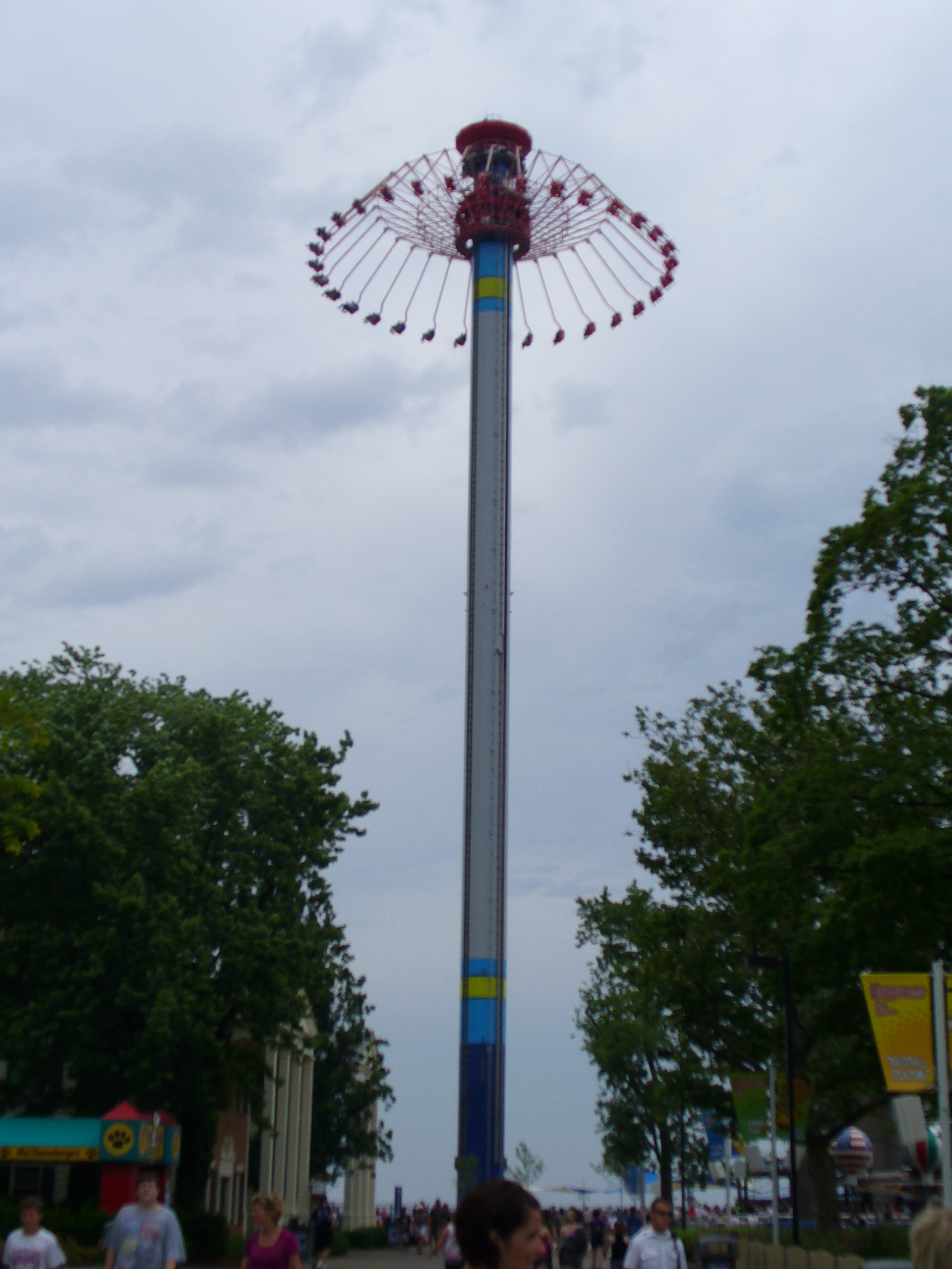 A full view of Cedar Point's WindSeeker in operation.